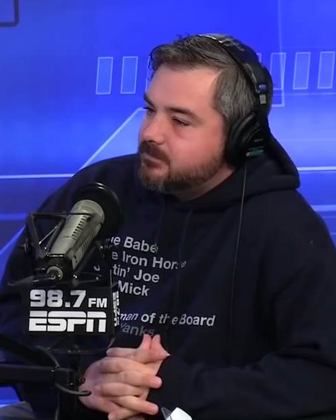 Jimmy O'Brien on the Michael Kay Show on the Yes Network YouTube Channel and 98.7 FM ESPN